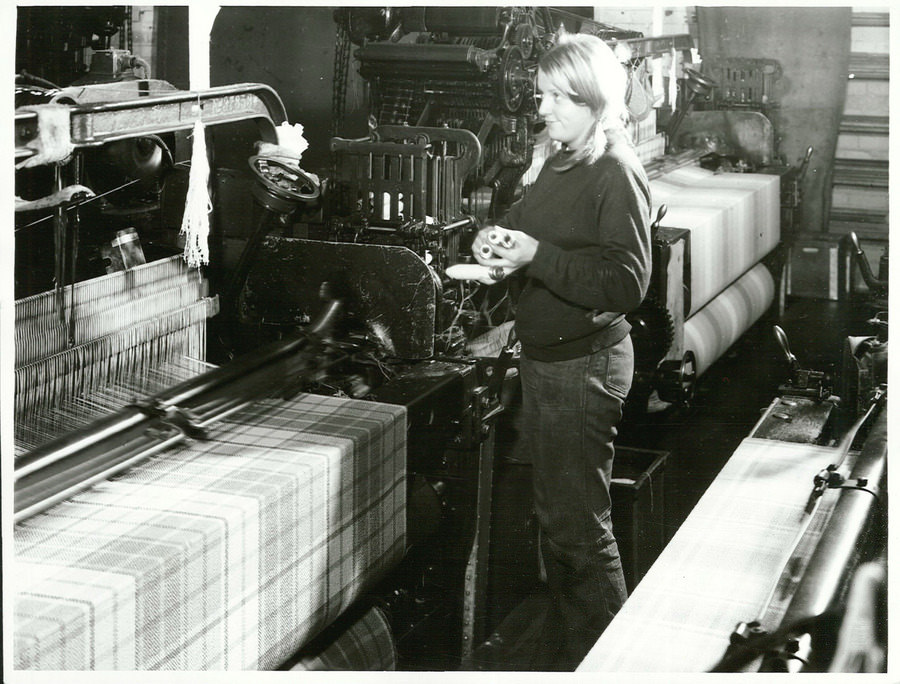 Blanket weaving at the Mosgiel Woollen Mill 1974